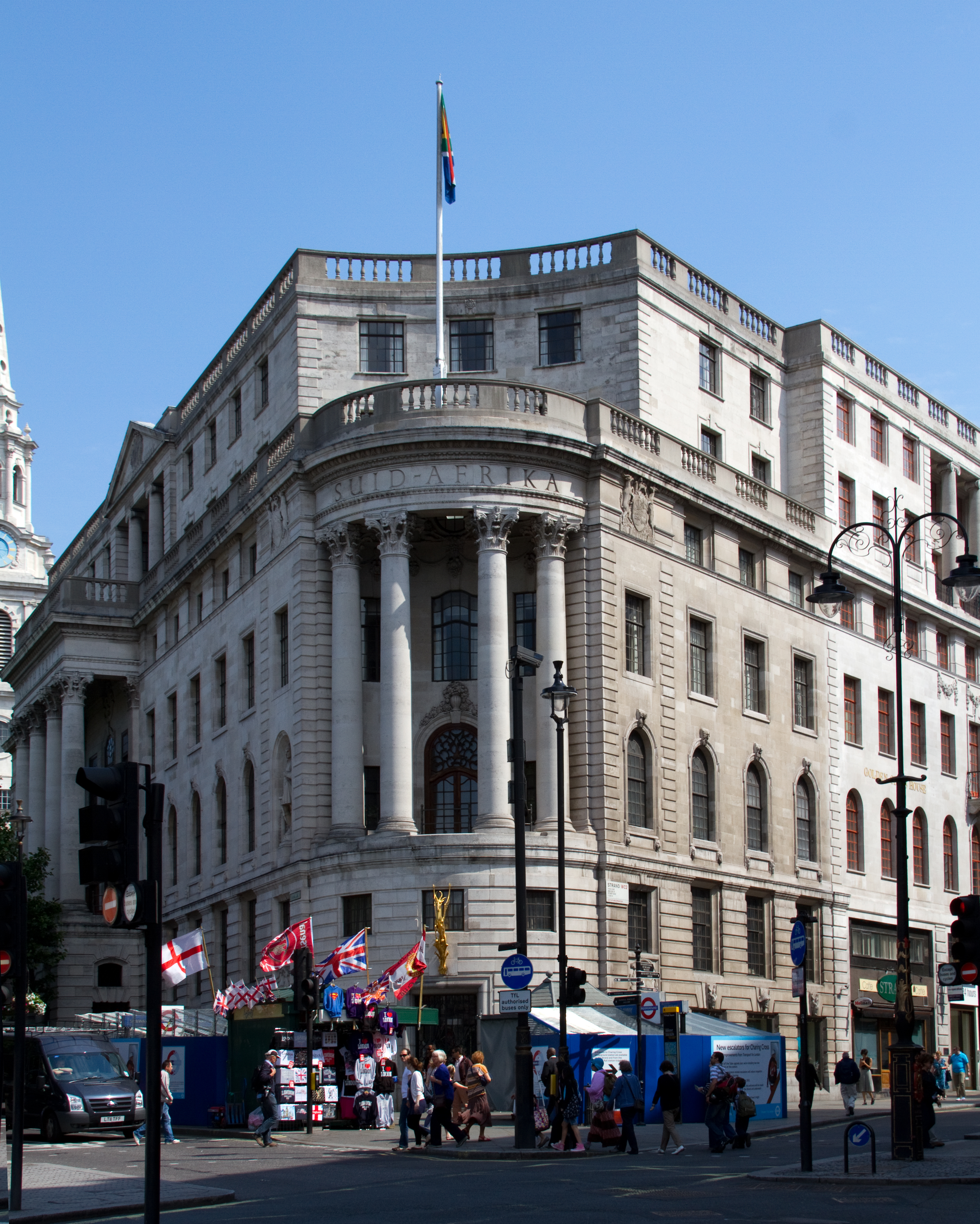 South Africa House